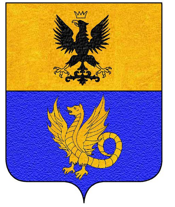 Coa fam ITA borghese